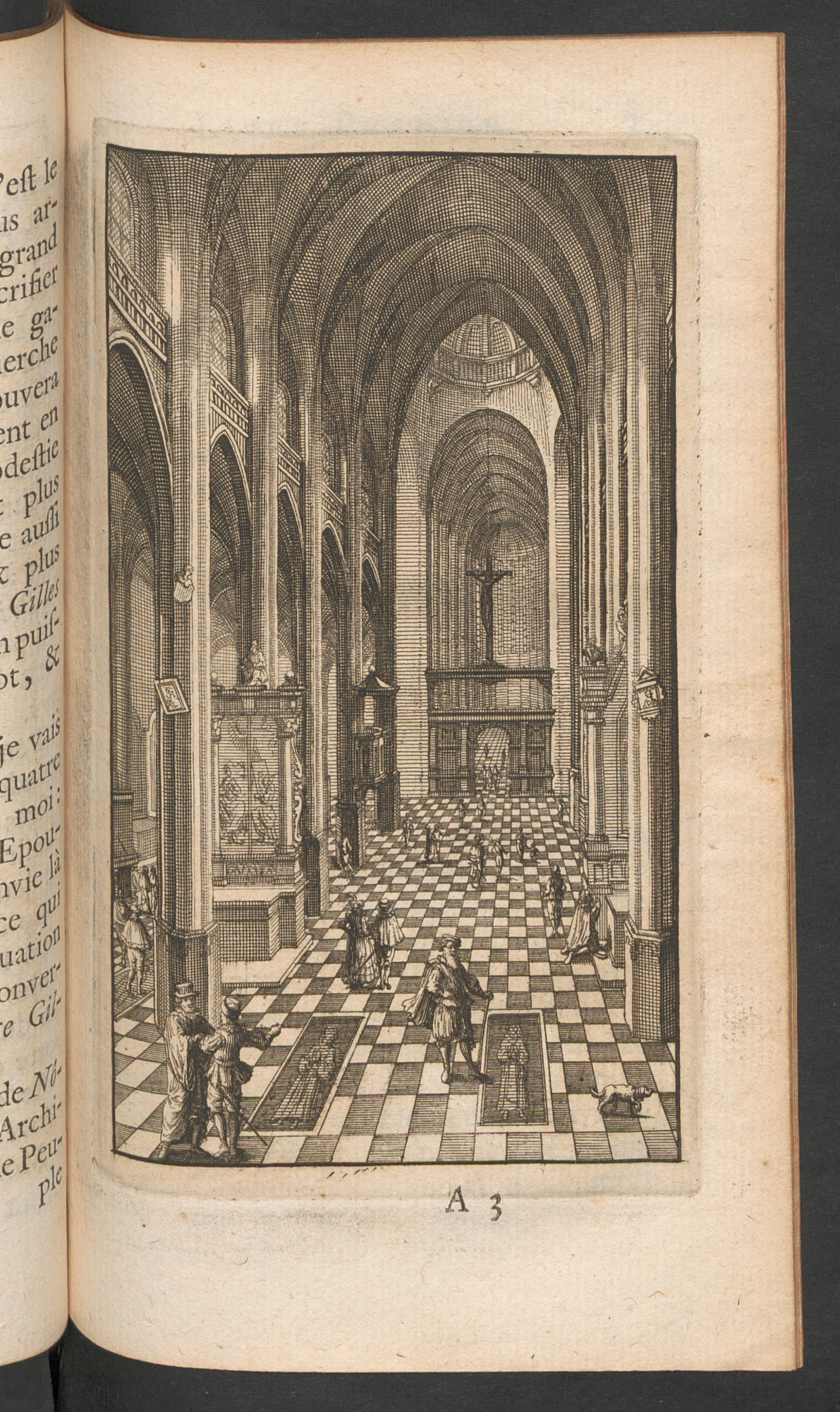 Engraving by François van Bleyswik for Th. More's Utopia translated in french by N. Gueudeville in 1715 (ETH-Bibliothek Zürich). This engraving (page 5) represents the encounter between Th. More and Rapahel Hythlodaeus in Notre-Dame church in Antwerp.